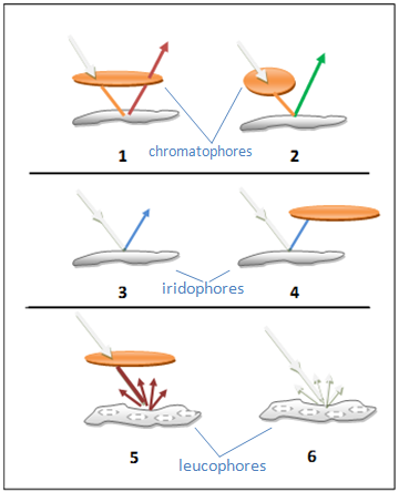 The six cases of reflection used by the Cuttlefish